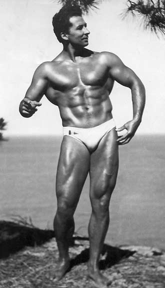 Juan Ferrero (5 April 1918 – 17 June 1958) was a Spanish bodybuilder of international stature who won the Mr. Universe Pro title in London in 1952